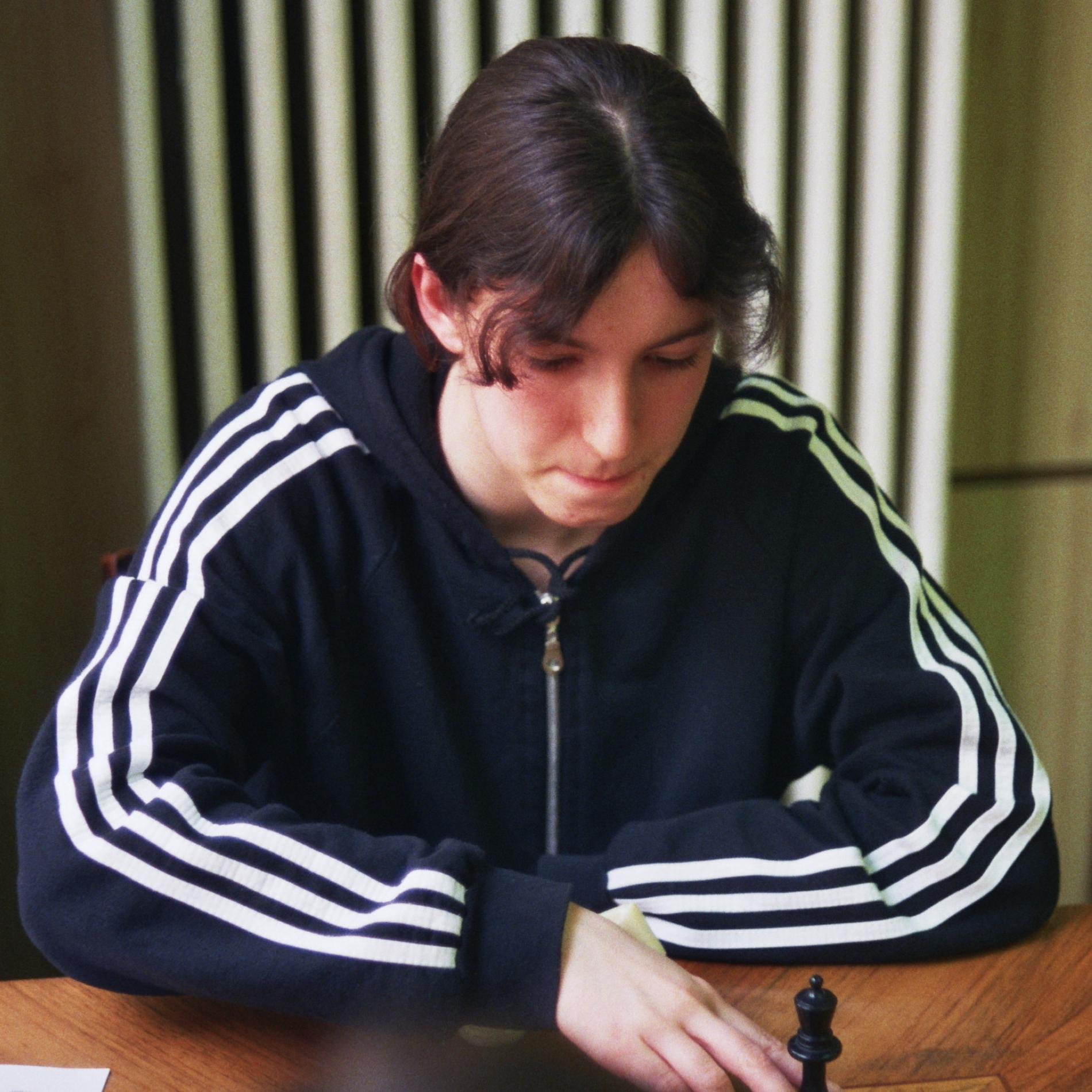 Yelena Dembo, First Saturday Tournament 1999 at Budapest, Photographer Gerhard Hund.